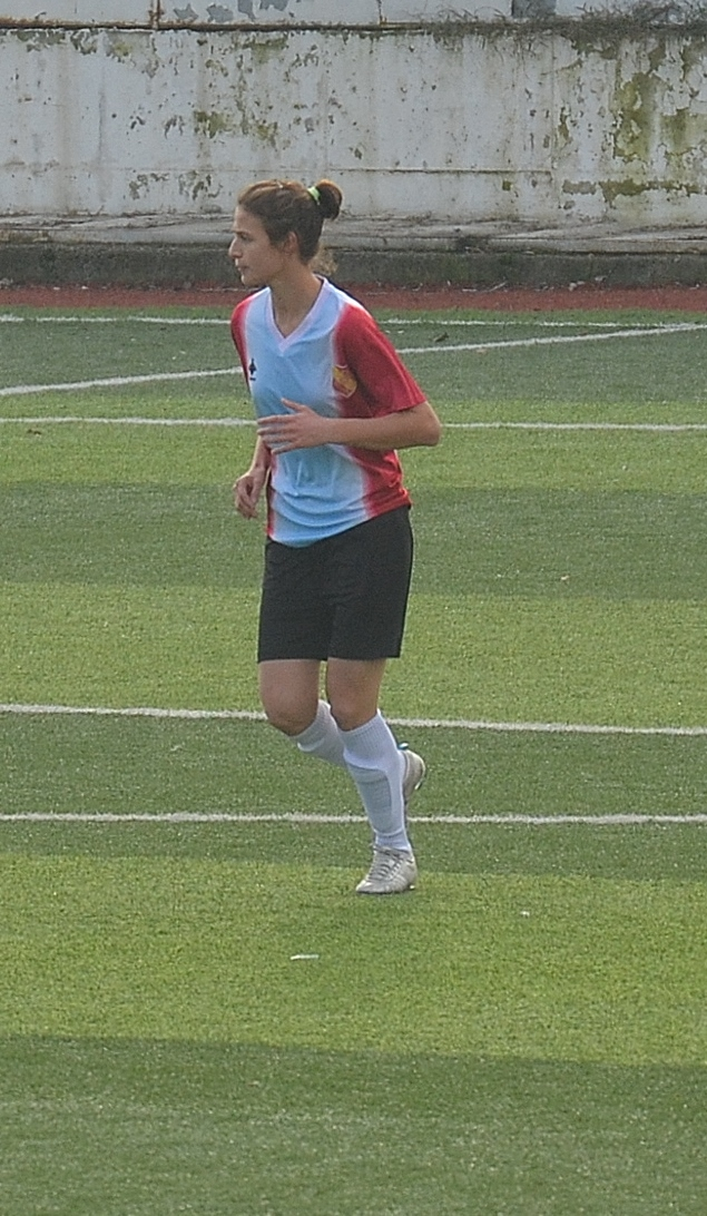 Gamze Bezan playing for Trabzon İdmanocağı (women) in the away match against Ataşehir Belediyesspor (2014-15 season)